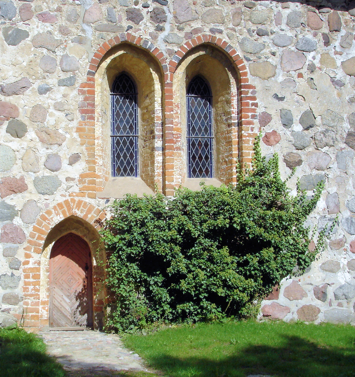 Church in Thelkow, Mecklenburg, Germany